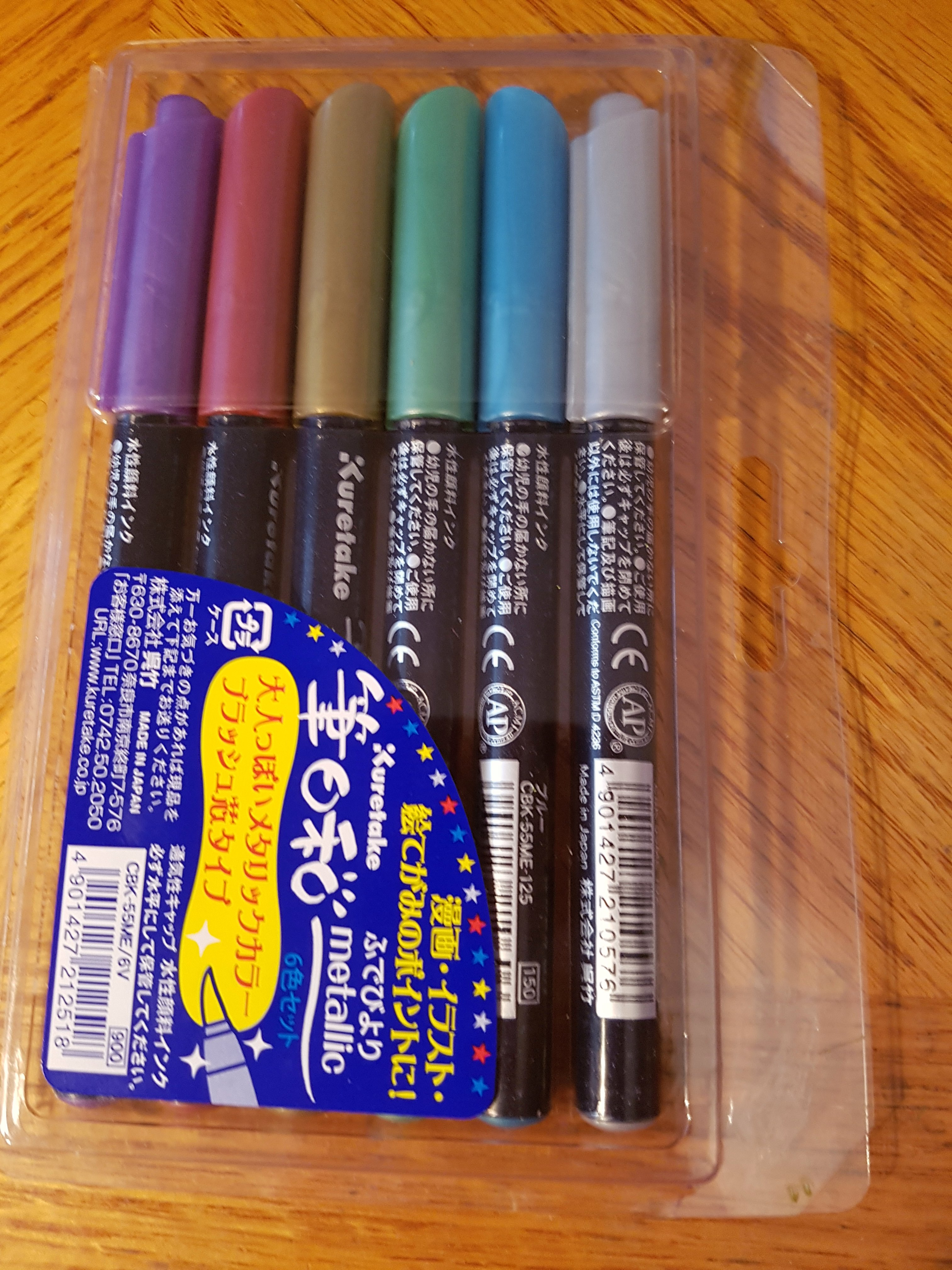 Kuretake metallic brush pens 6 color set (japan import)